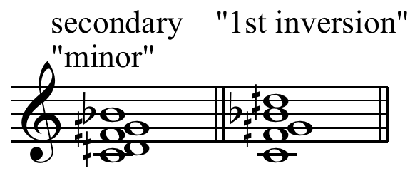 Ives quarter tone secondary chord.